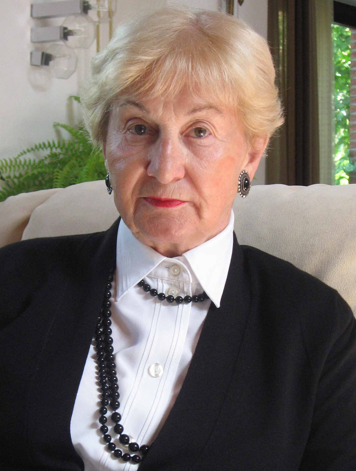 Rosemarie_Nave-Herz